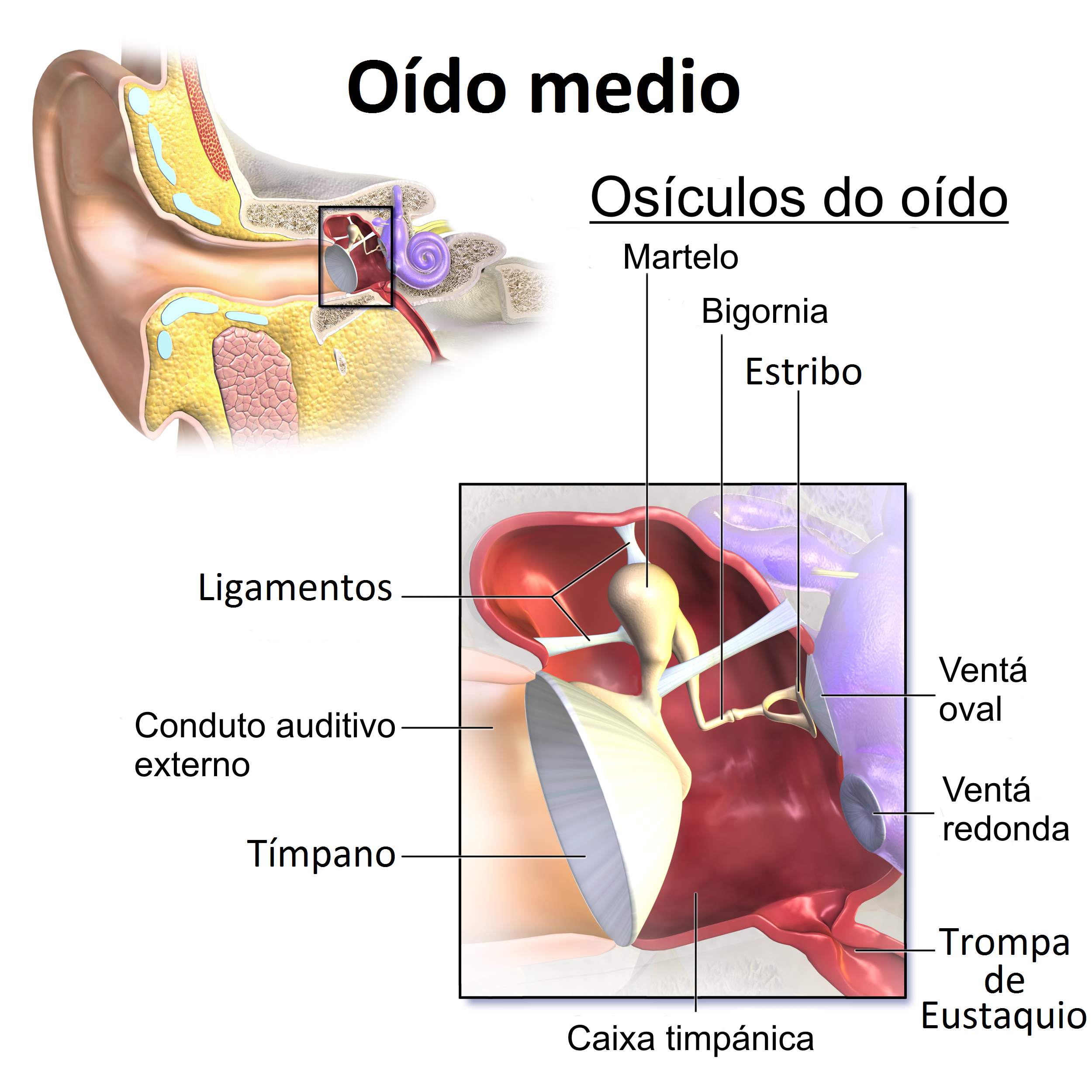 middle earGalego: oído medio